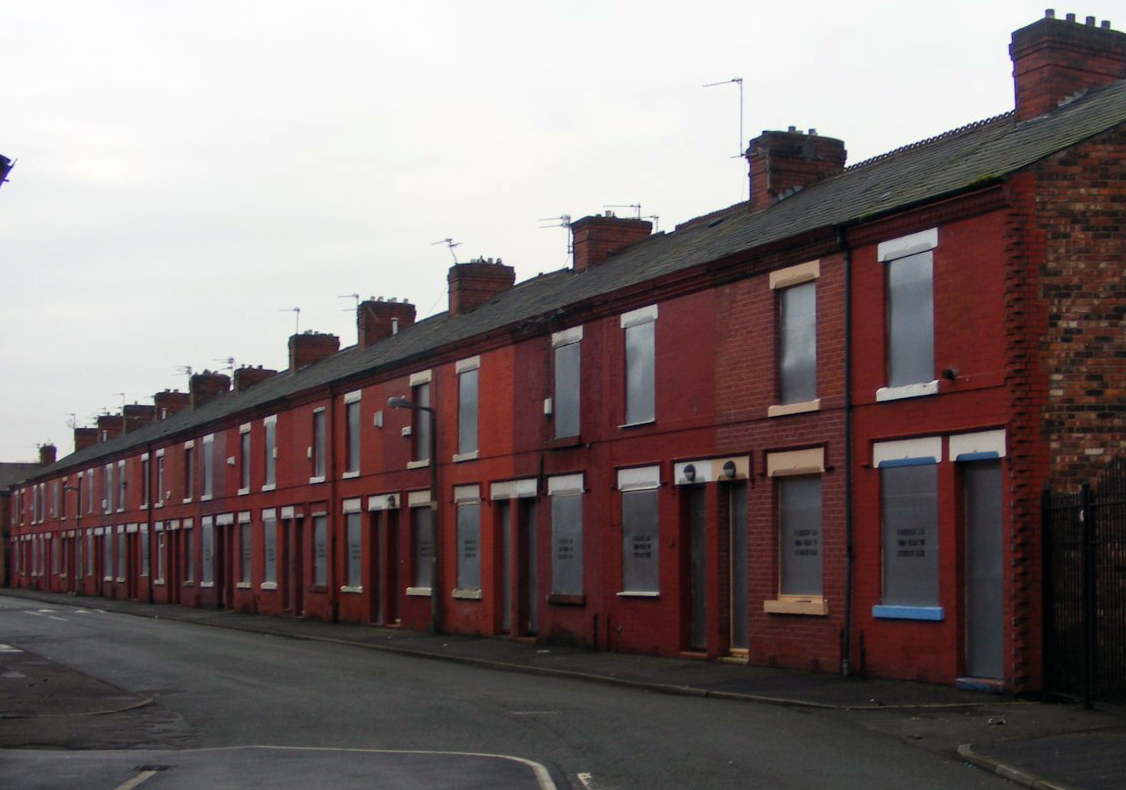 Boarded up houses on Thursfield Street, Salford, Greater Manchester, England.